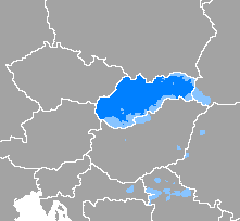 Slovak language.